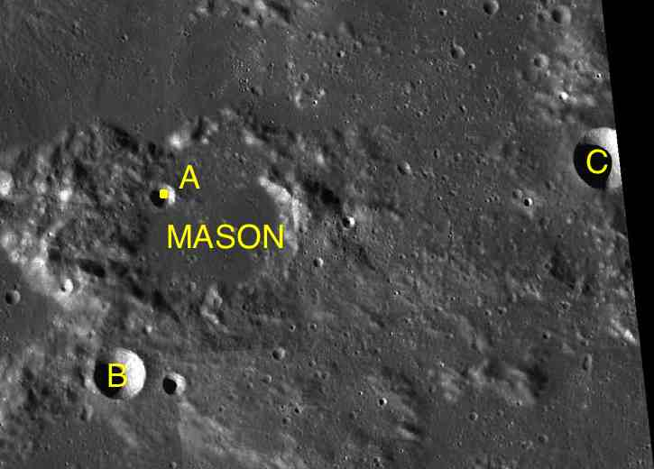 Part of the chart LAC-26 used for the presentation